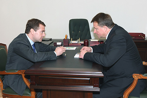 TULA. Dmitry Medvedev with Governor of Tula Region Vyacheslav Dudka.